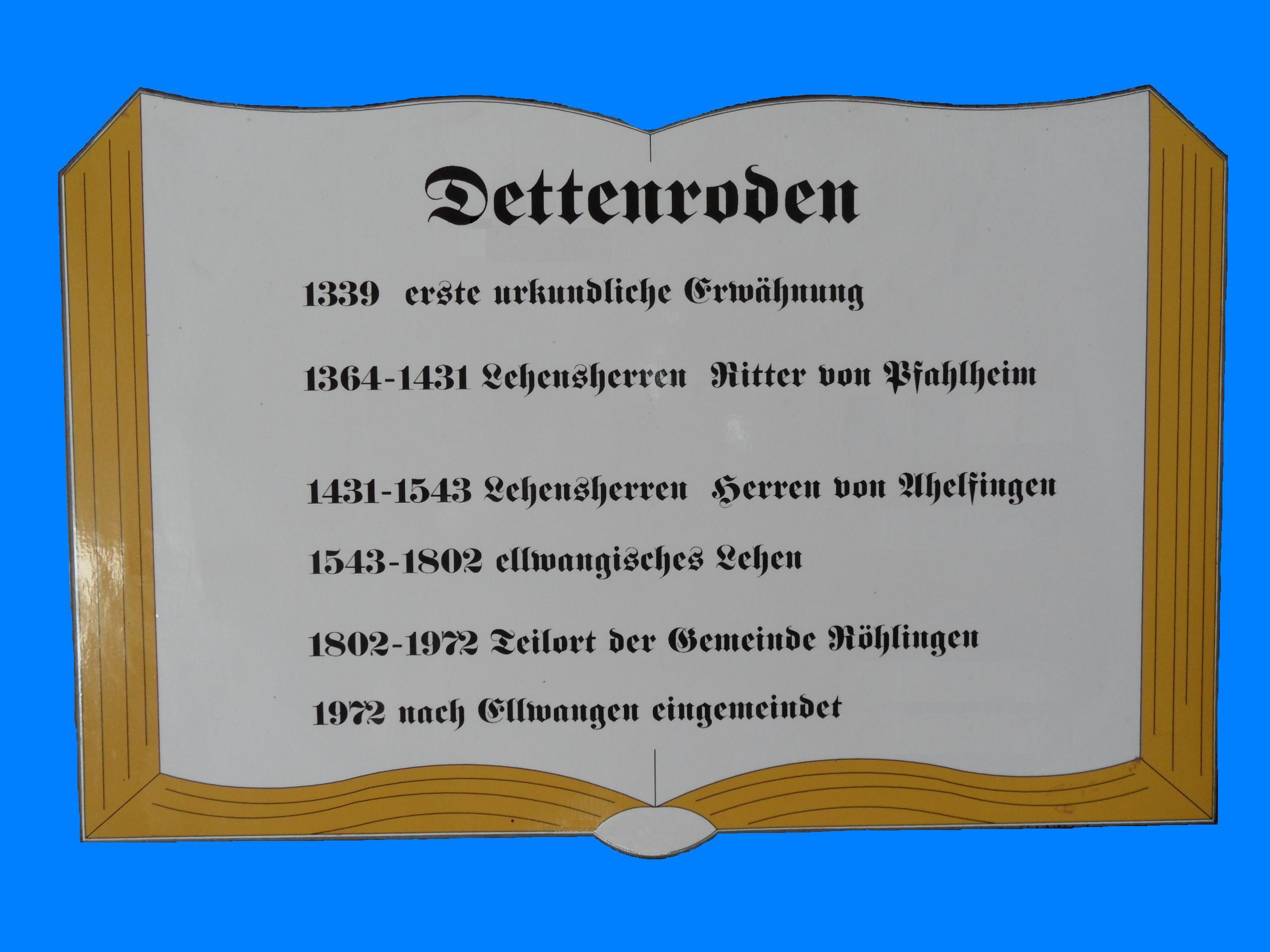 Dettenroden Chronik